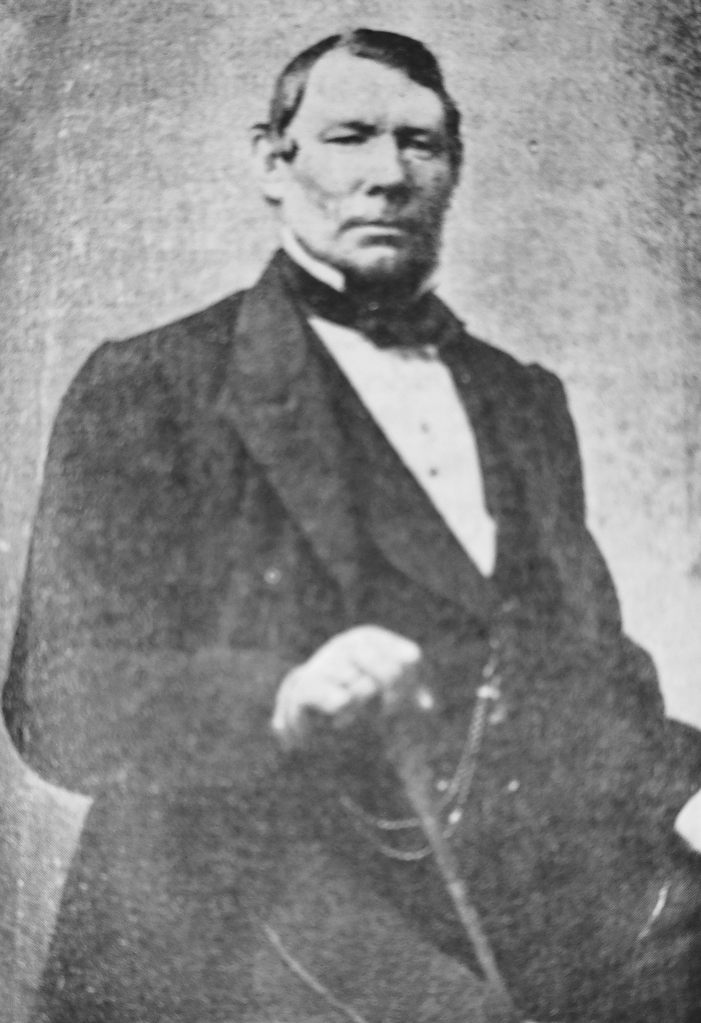 Johan Fredrik Hjort, executioner in the City of Stockholm.